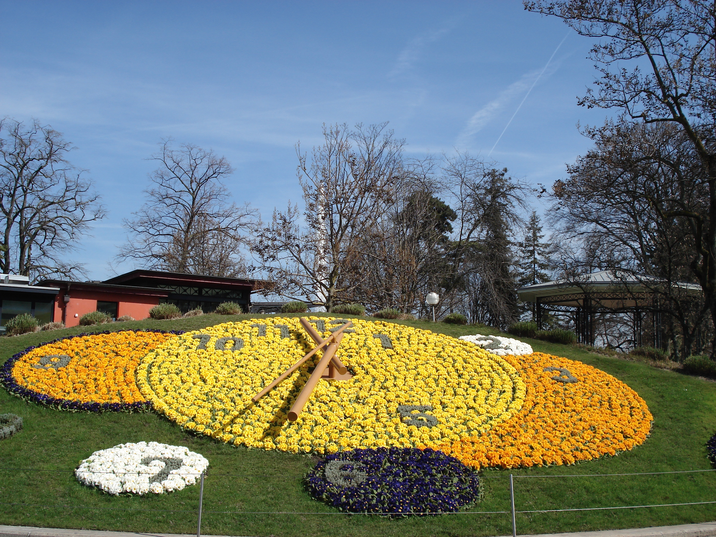 Flower Clock in Geneva